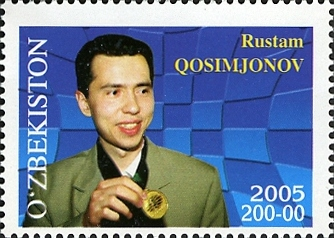 Stamps of Uzbekistan, 2006